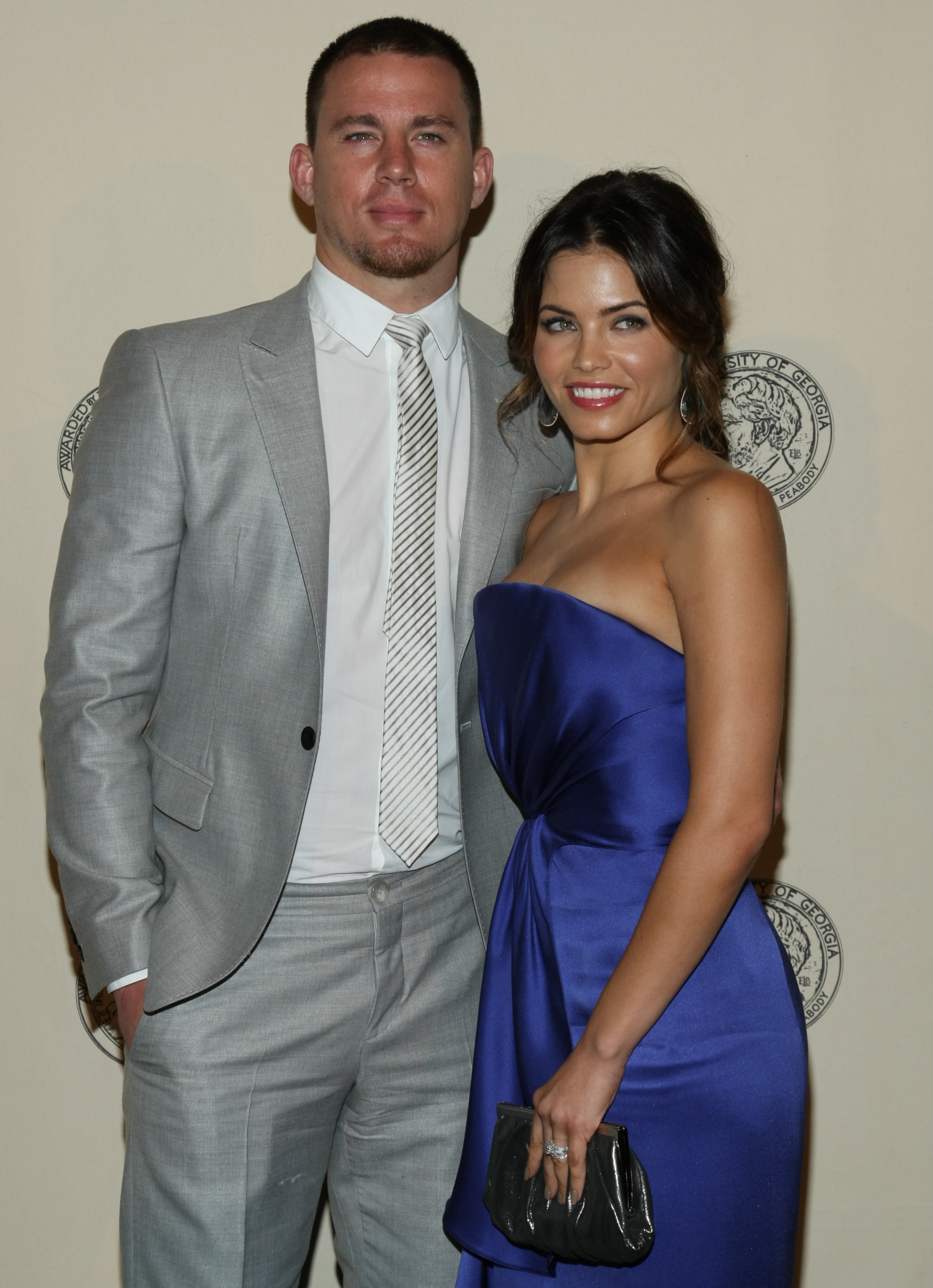 Channing Tatum & Jenna Dewan at the 71st Annual Peabody Awards Luncheon 2012.